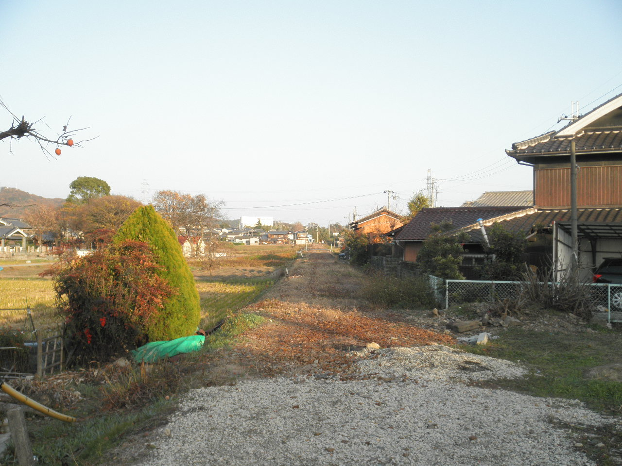 Kamisohtown Kunikane Kakogawacity Hyogopref Miki railroad trace